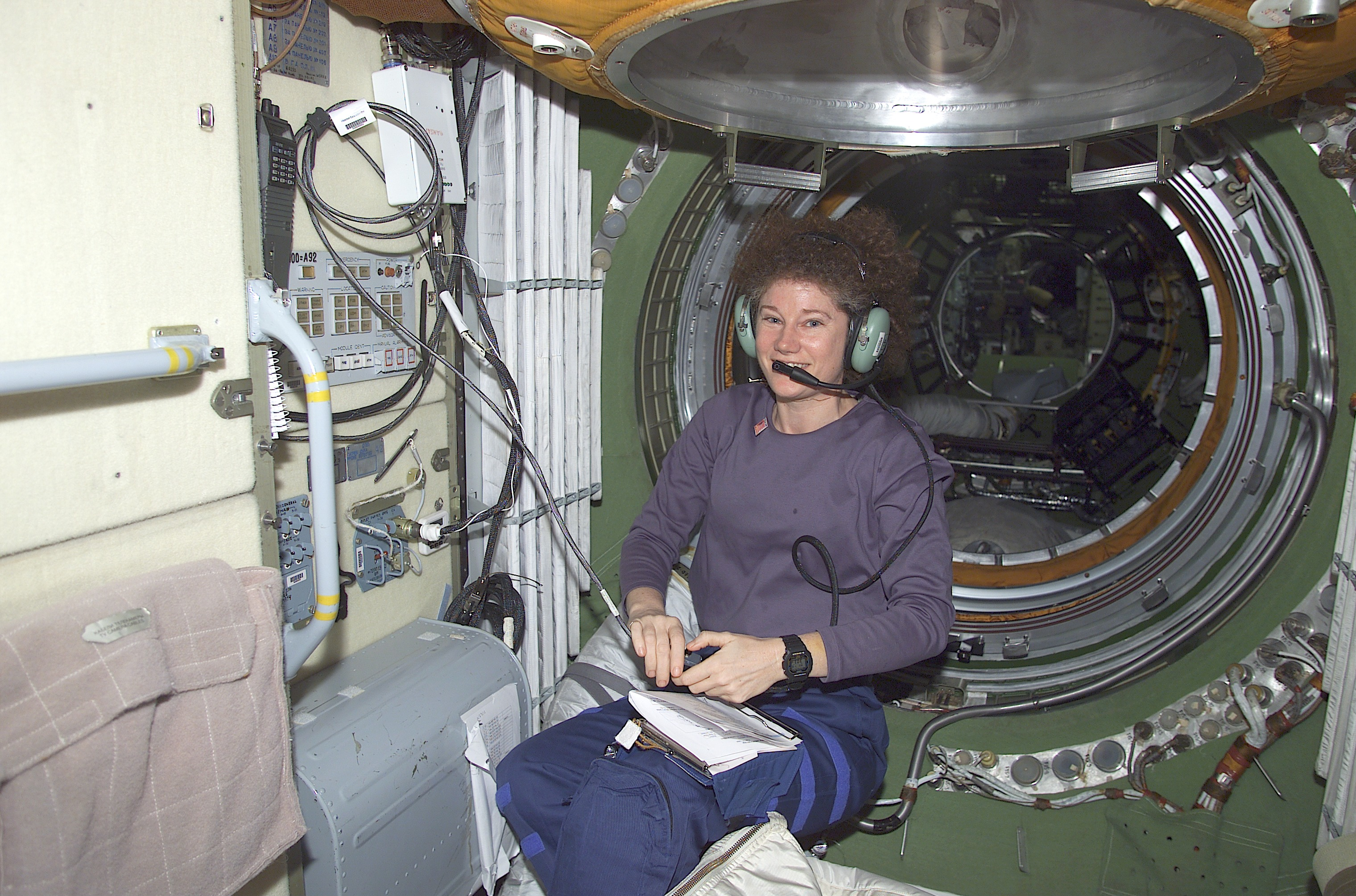 Susan J. Helms, Expedition Two flight engineer, talks to amateur radio operators on Earth from the HAM radio workstation in the Zarya module of the International Space Station (ISS).